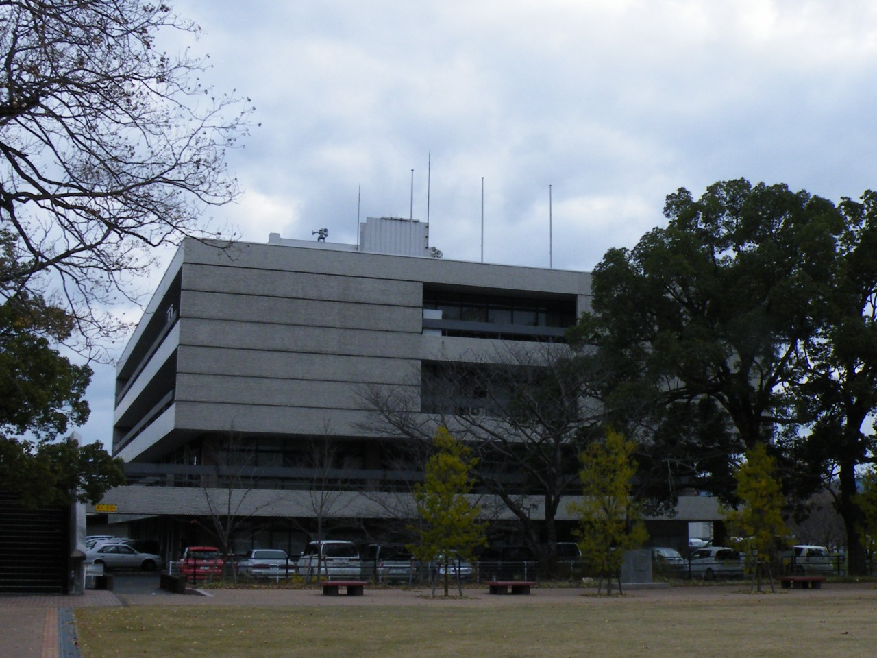 Takeo City Hall (Saga Pref. Japan)